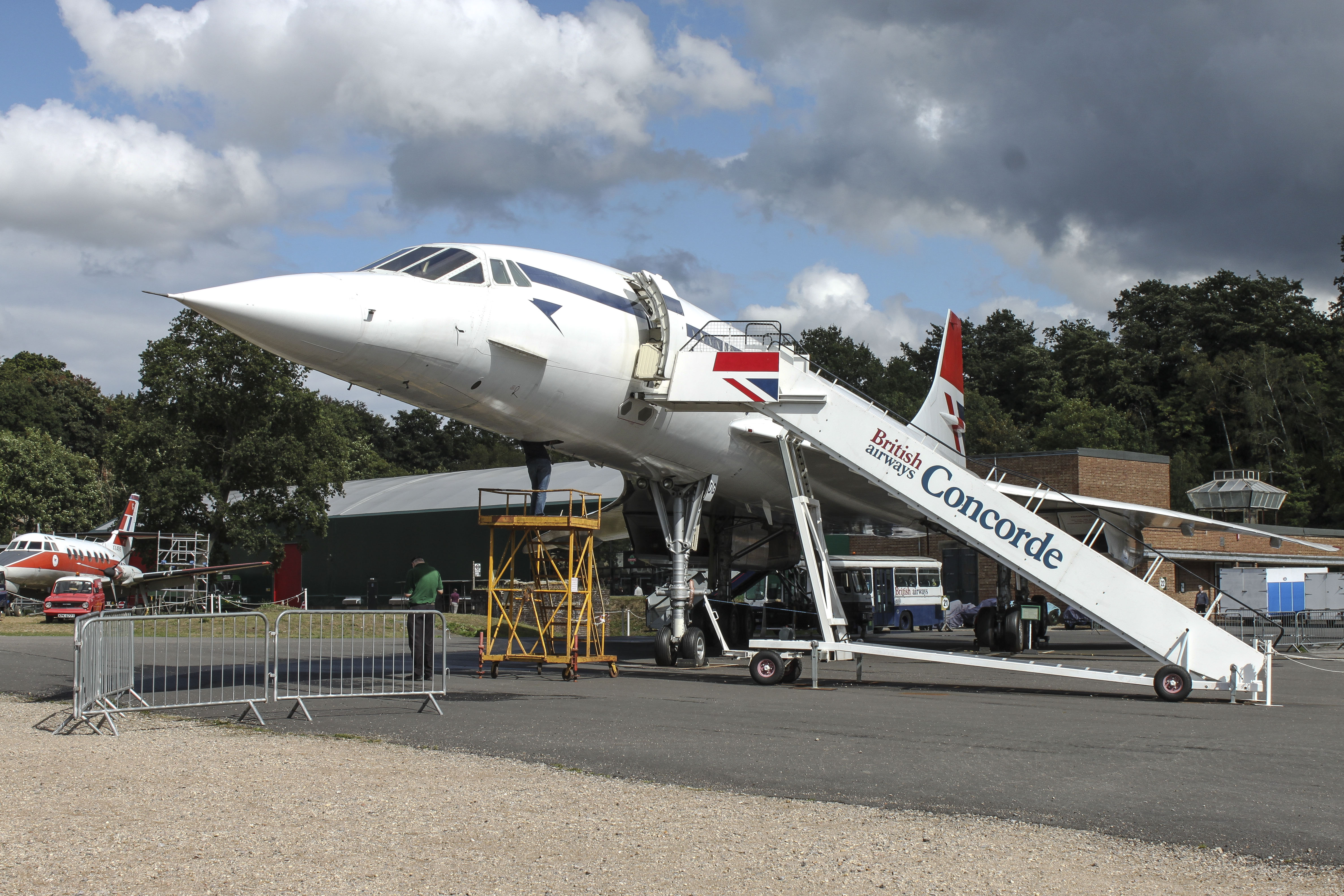 Concorde G-BBDG on display.